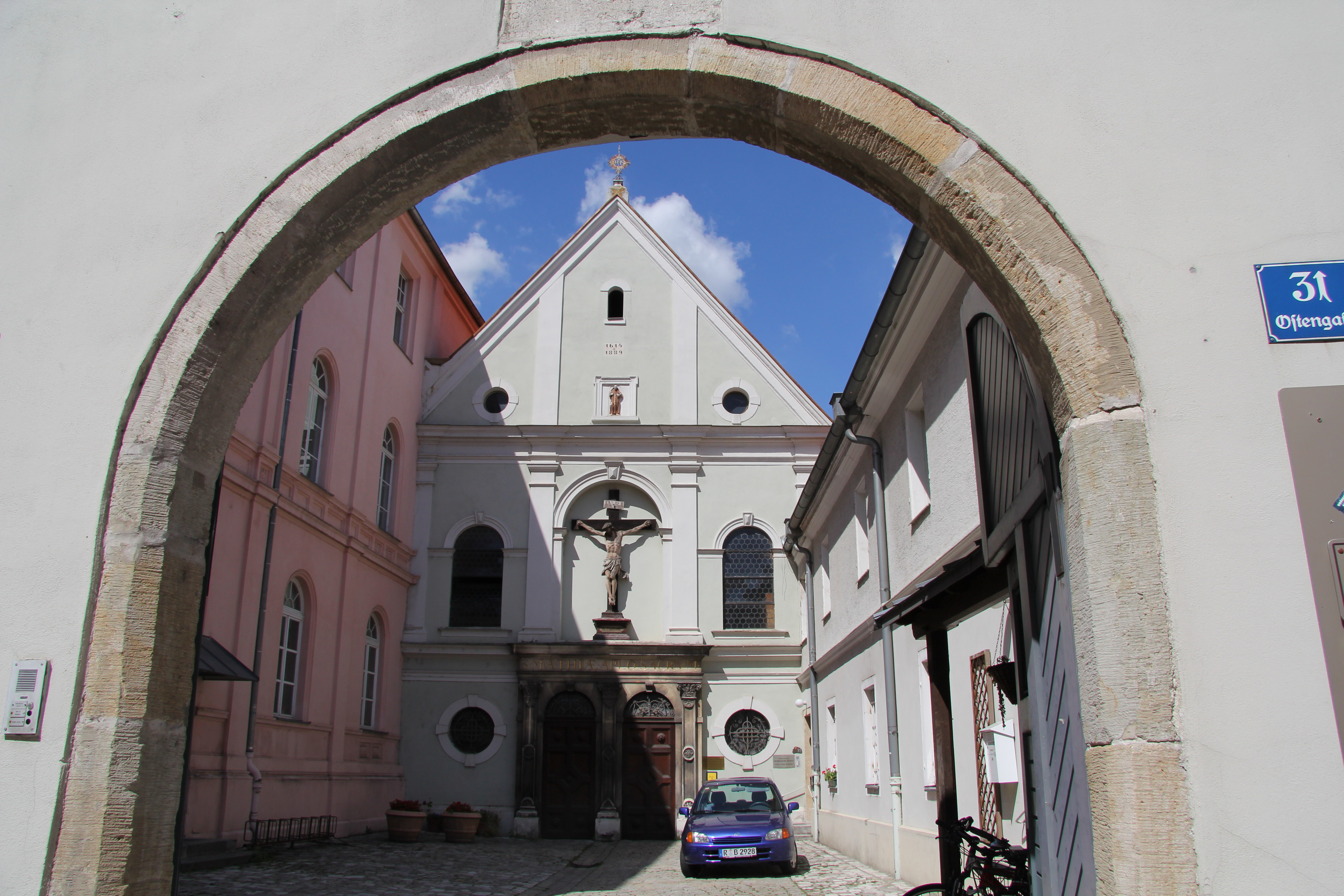 Regensburg, Klosterkirche St. Matthias, south side through archway from Ostengasse